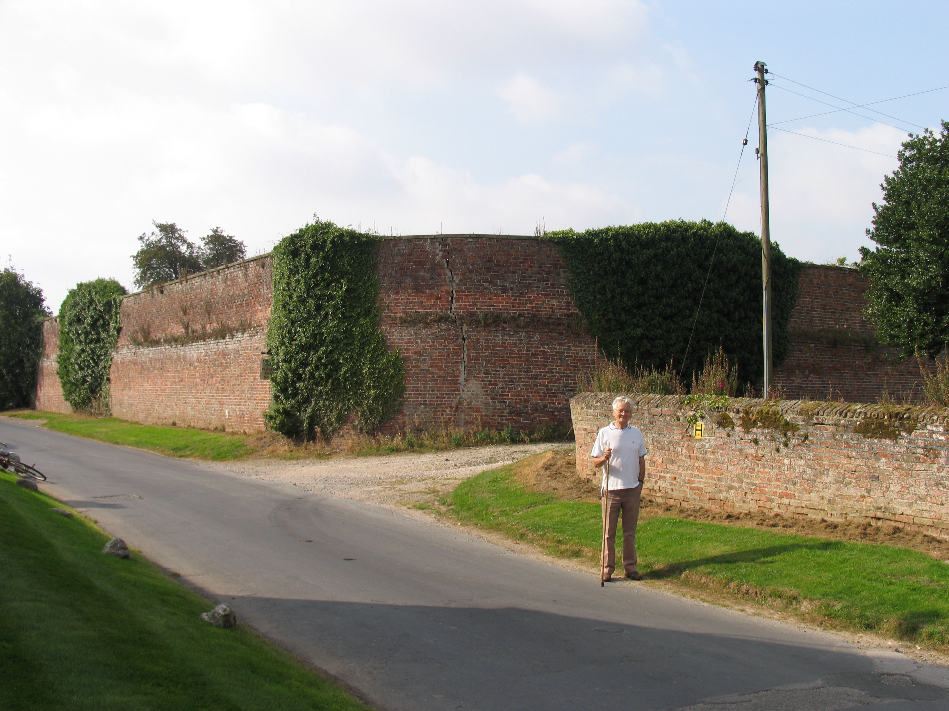 The Walled Garden in Kilnwick, East Riding of Yorkshire, England.